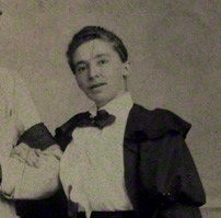 Archibald Little and Alicia Little by Sze-Yung-Ming & Co, albumen cabinet card, November 1894